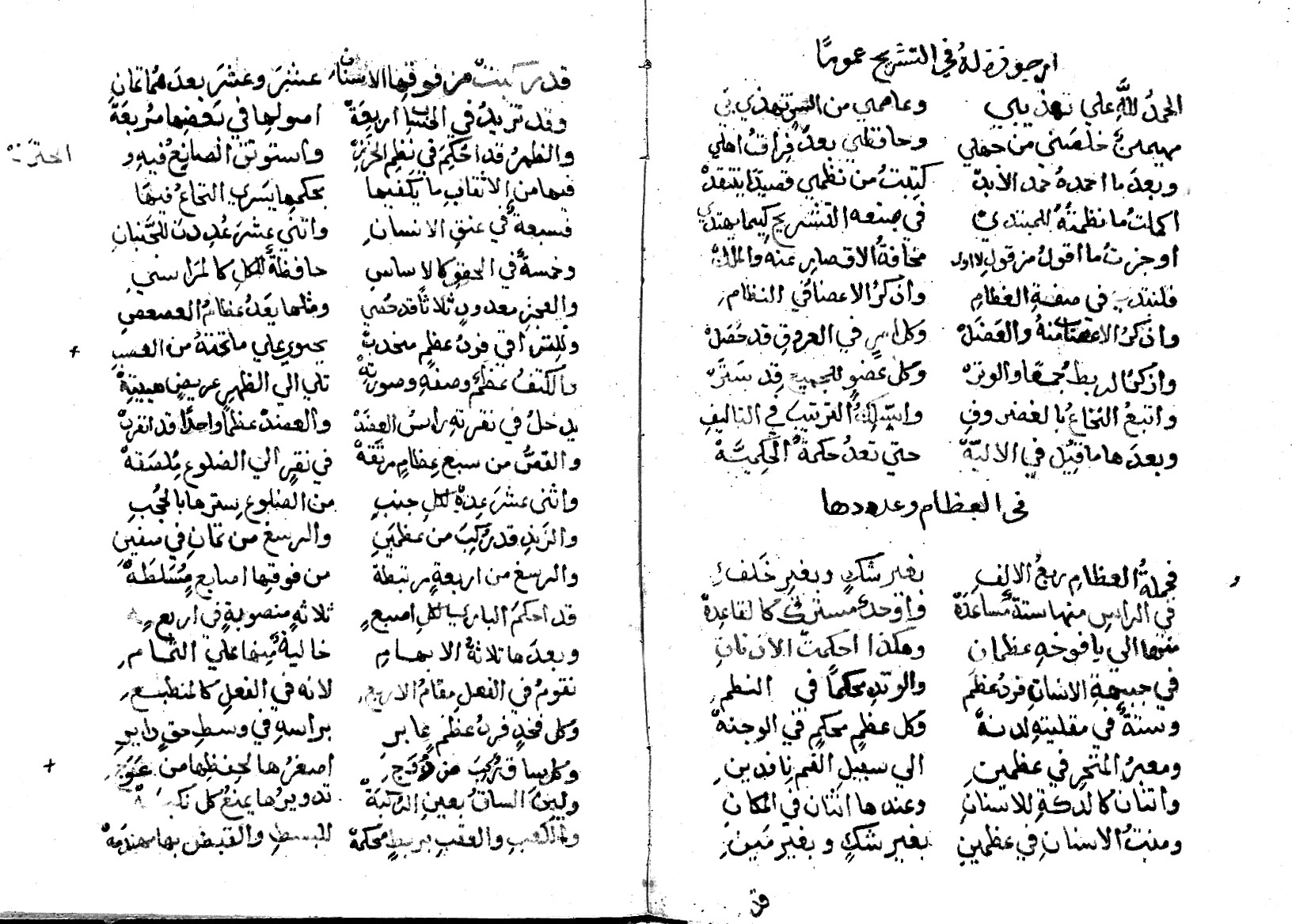 Text: The title 'Bones' appears. Asian Collection Keywords: anatomy, arabic; Avicenna